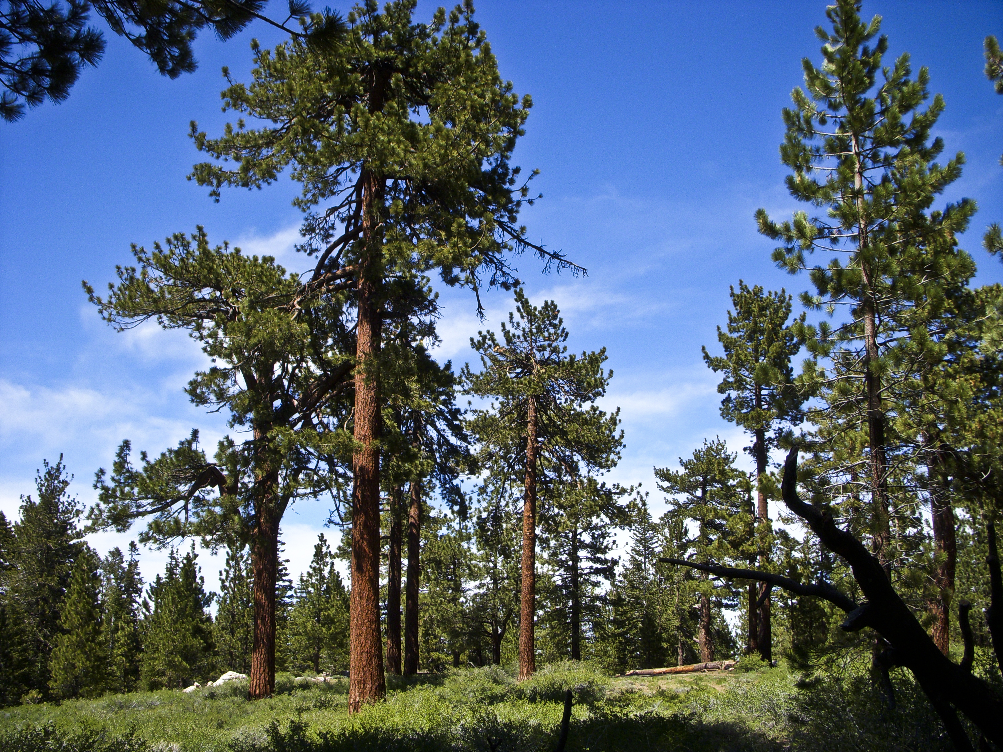 Jeffrey pine (Pinus jeffreyi) forest, Mount Pinos, California